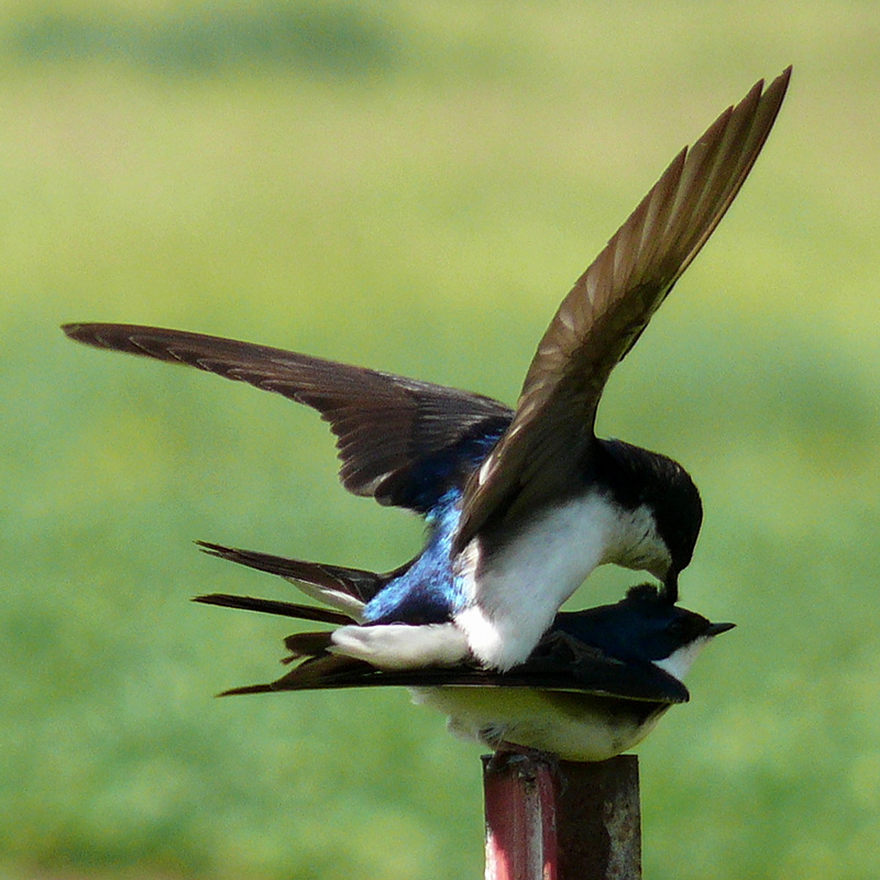 A male (top) and a female (bottom) Tree Swallow (Tachycineta bicolor) mating on a fence post.Photo taken with a Panasonic Lumix DMC-FZ50 near the village of Valle Crucis in Watauga County, NC, USA.NOTE: This version of the image has been cropped from the original in order to show more detail in the Wikipedia article thumbnail.